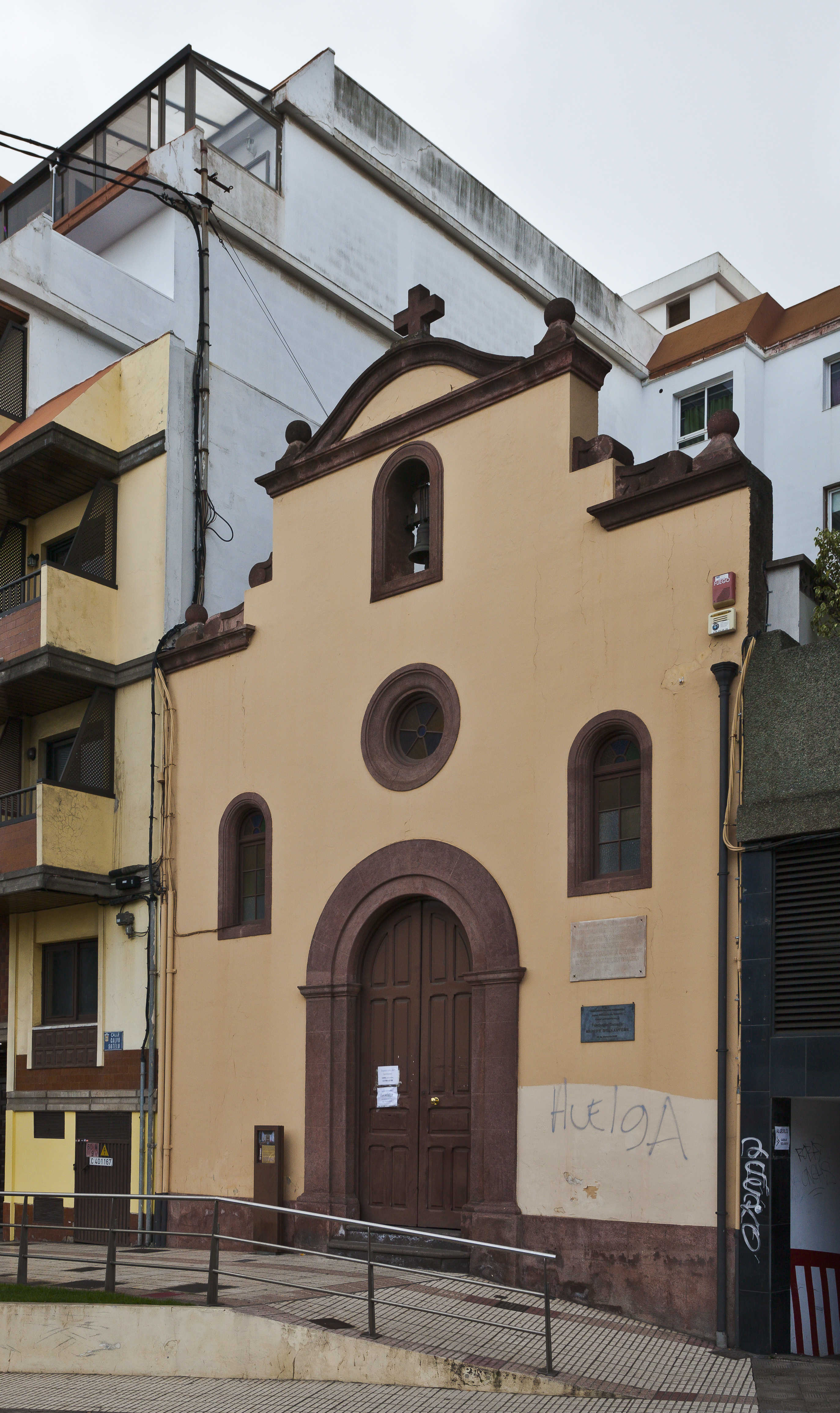 Hermitage of Saint Cristobal, San Cristóbal de La Laguna, Tenerife, Spain